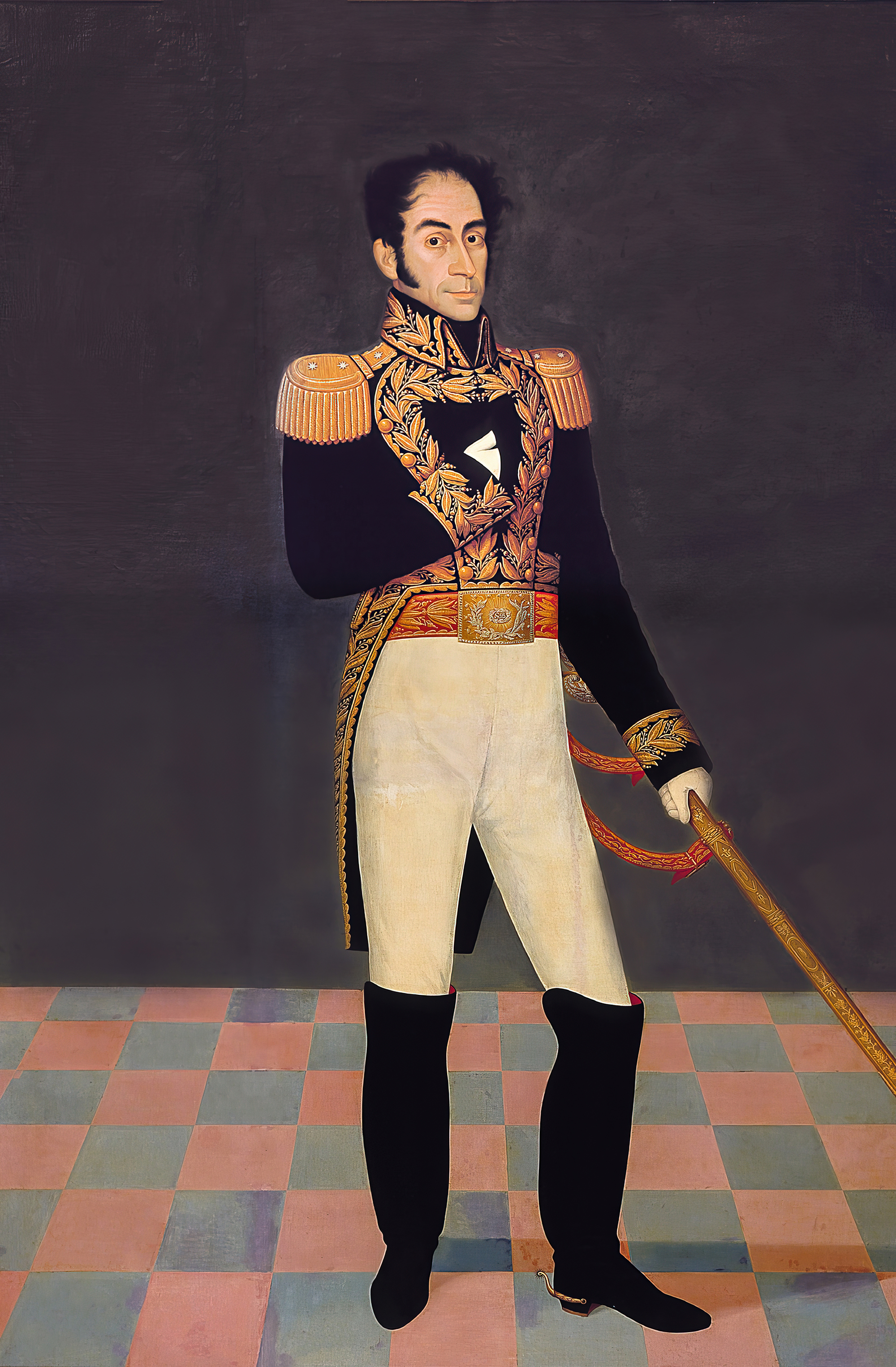 Portrait of Simón Bolívar (1783-1830)Caption: Al Señor General Sir Robert Wilson:Retrato mío hecho en Lima con la más grande exactitud y semejanza.BOLIVAR.